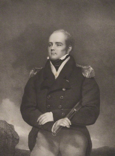 Portrait of Robert Cavendish Spencer (1791–1830), English officer of the Royal Navy